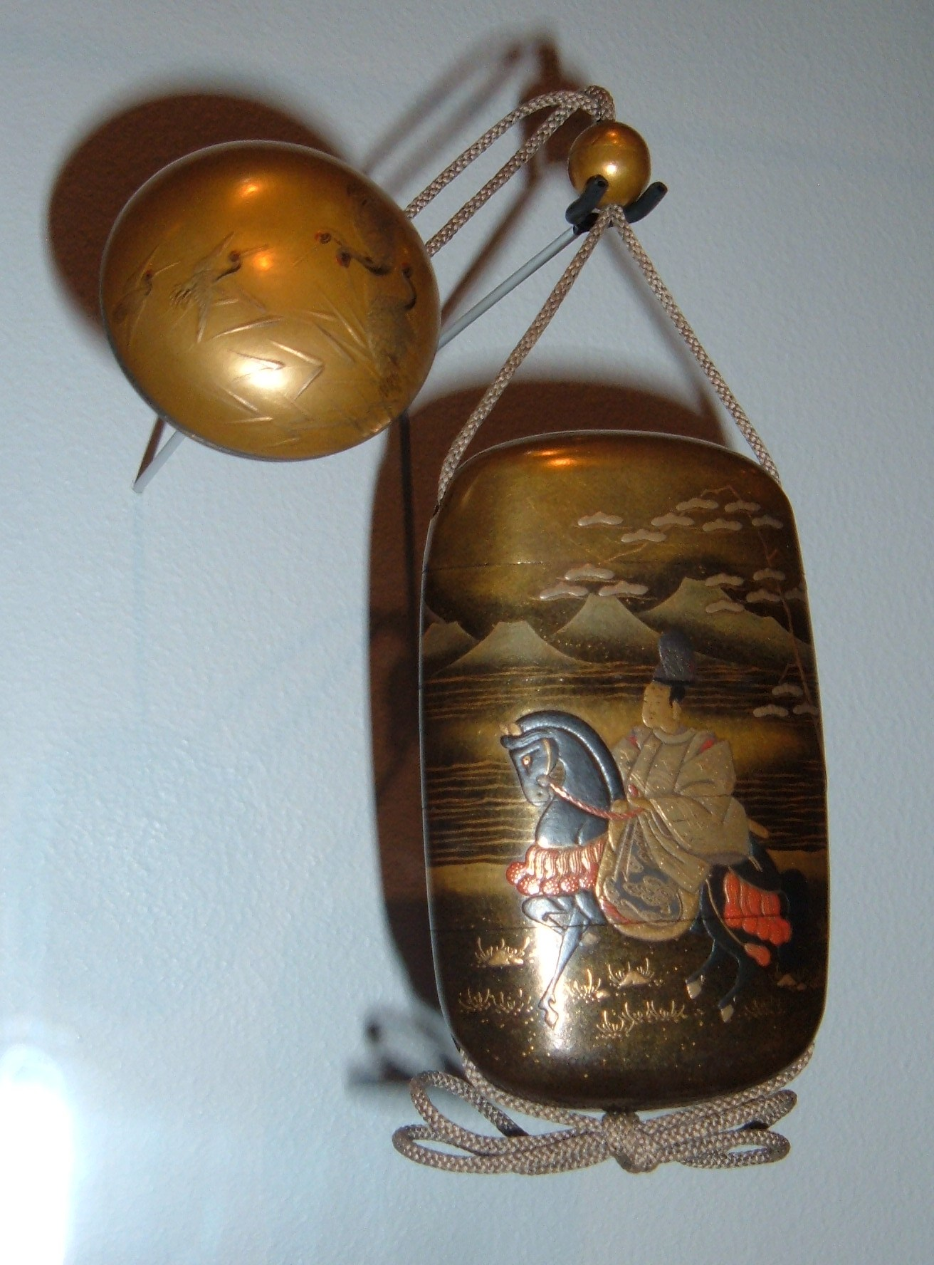 Inro with court noble on horseback preceded by his servant with netsuke with Siberian cranes and ojime by Shokosai, active late 18th - early 19th centuries. On display at the Iris & B. Gerald Cantor Center for Visual Arts on the Stanford University campus in Stanford, California. 1996.84